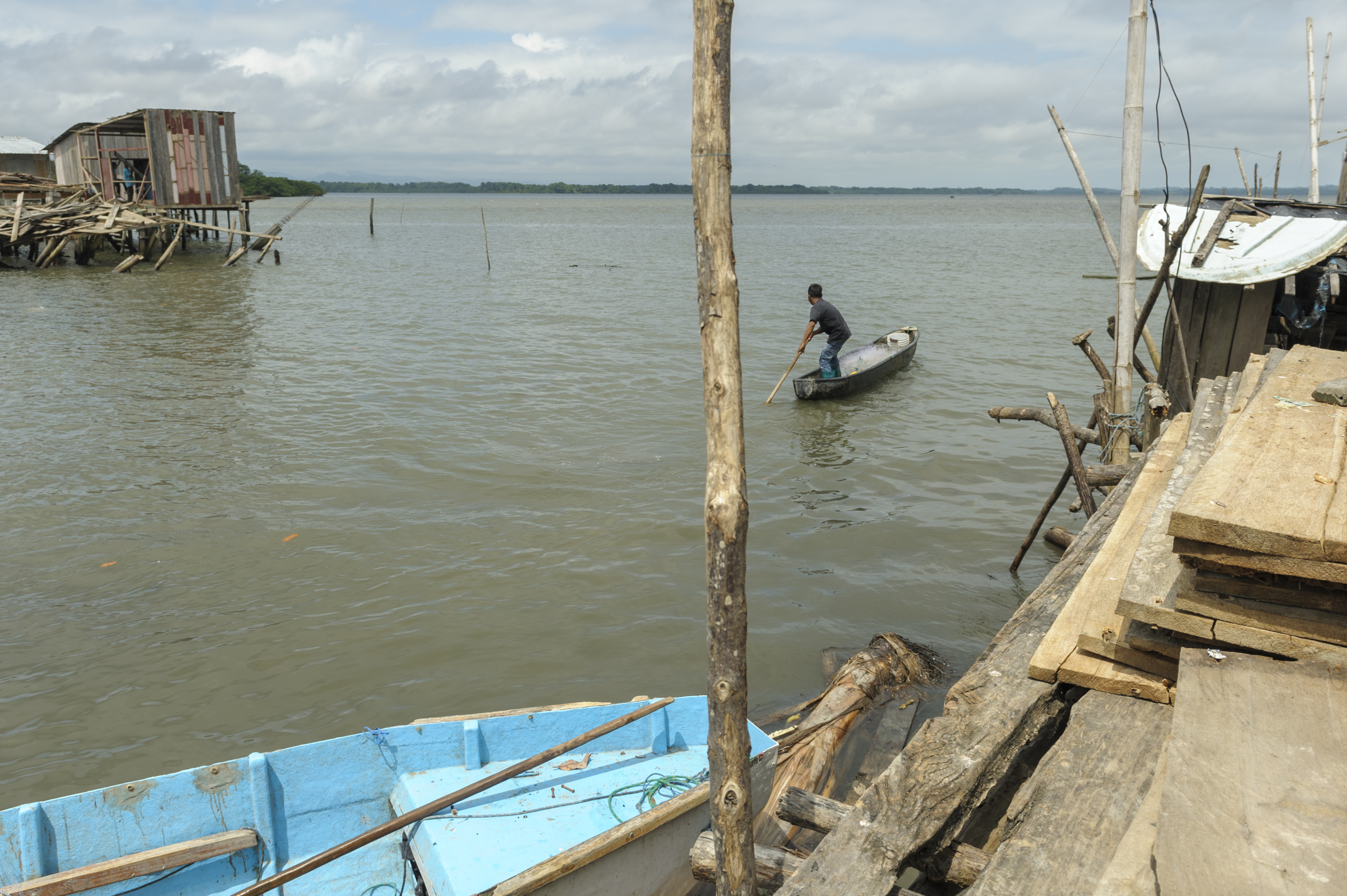 Lugar: San José de Chamanga, Ecuador Día: 29 de abril de 2016 Descripción (ENG): Angel Pata, 16, rows his family canoe at the Mache river in San José de Chamanga. The Pata family engaged in fishing for living. An earthquake hit the place on April 16 destroying several houses and public edifications.